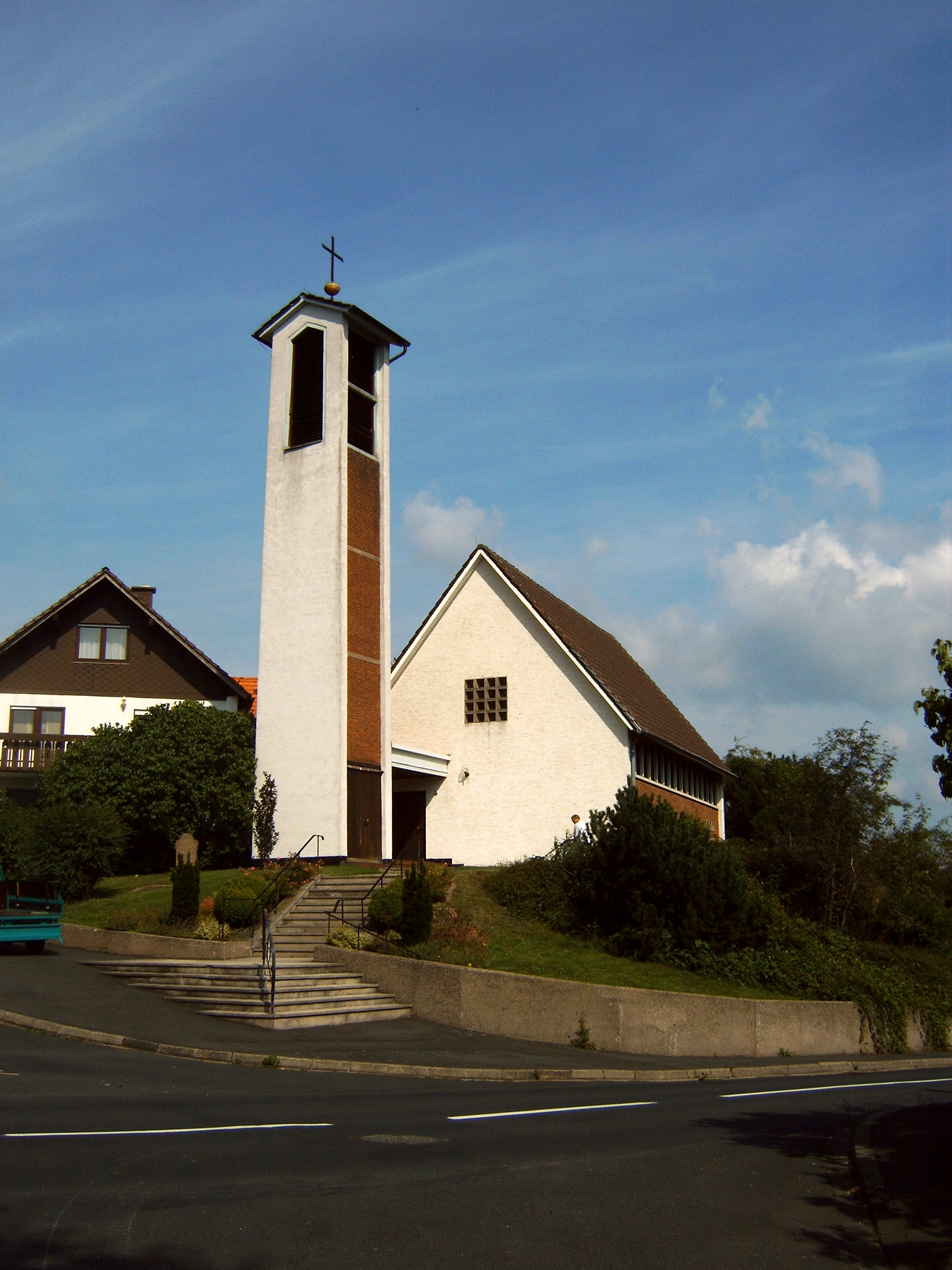 Church of Lüdersdorf, Bebra, Germany